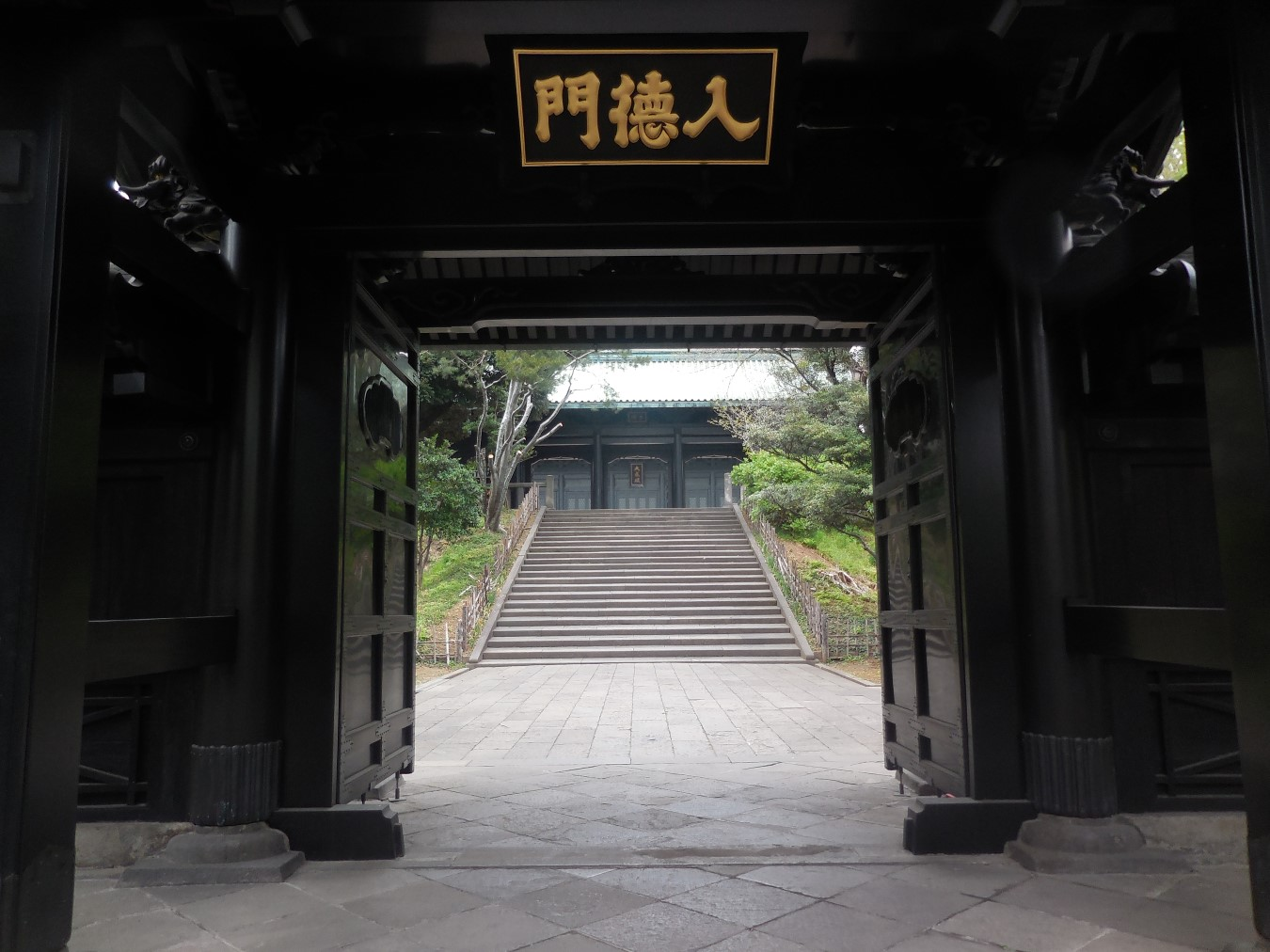 Gate to Confucius Temple Tokzo